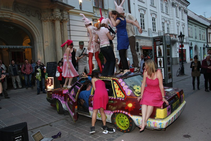 East Slovak Gallery Košice